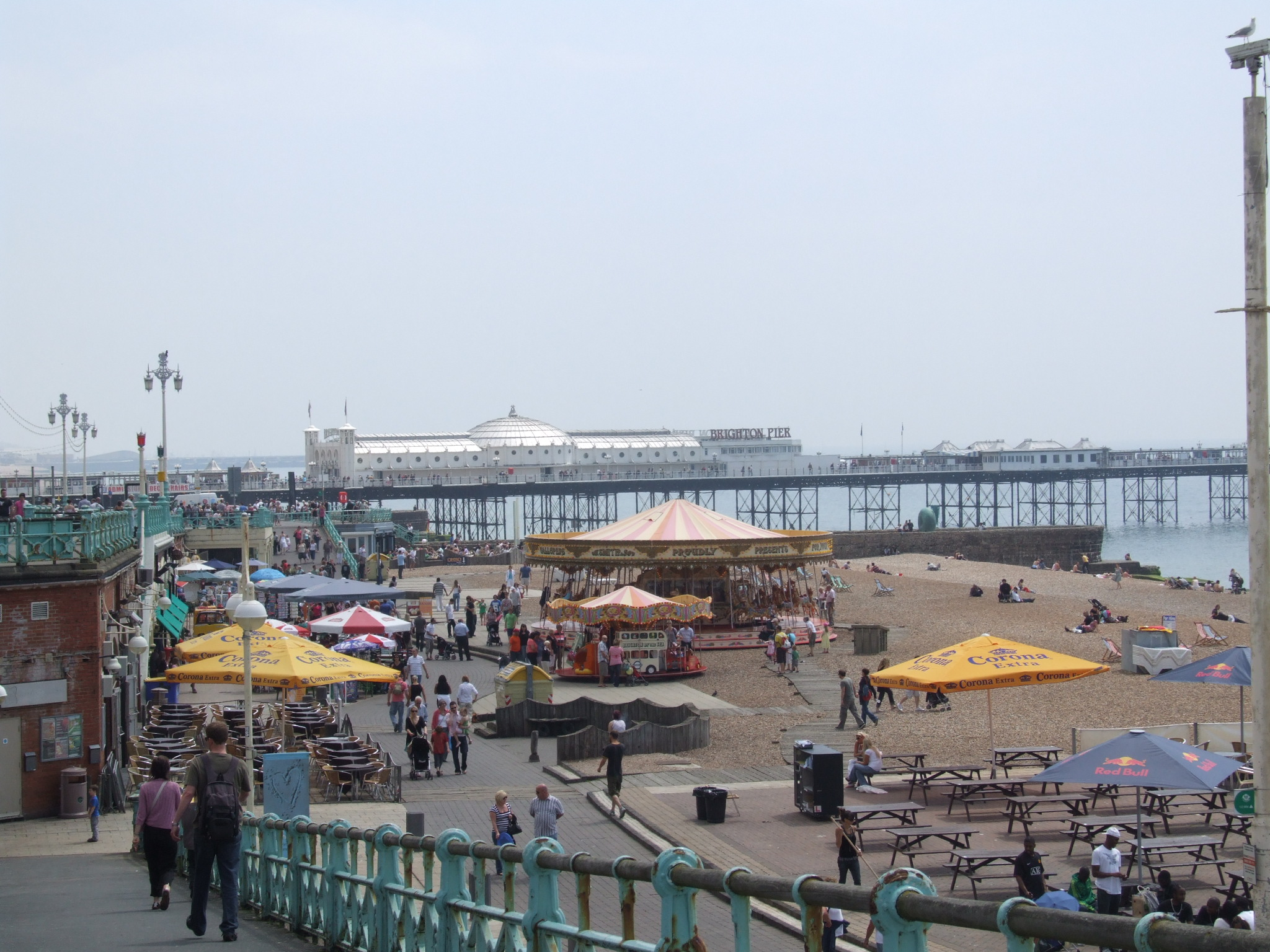 The beach at Brighton, from Kings Rd /West St, looking towards the Palace Pier and a beach fun fair with Carousel. - OpenStreetMap(Info)